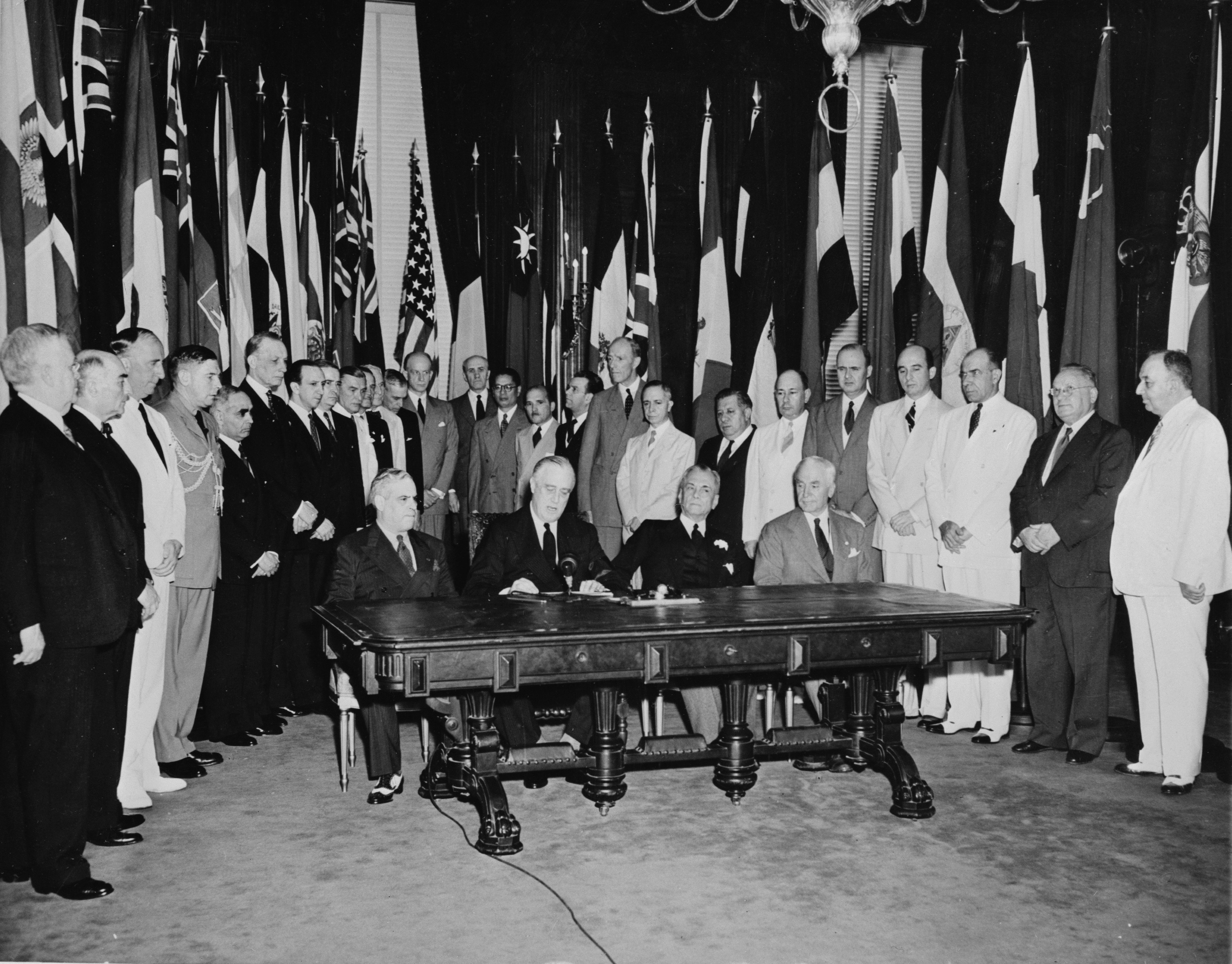 Washington, D.C. Representatives of 26 United Nations at Flag day ceremonies in the White House to reaffirm their pact. Seated, left to right: Dr. Francisco Castillo Najera, Ambassador of Mexico; President Roosevelt; Manuel Quezon, President of the Philippine Islands; and Secretary of State Cordell Hull